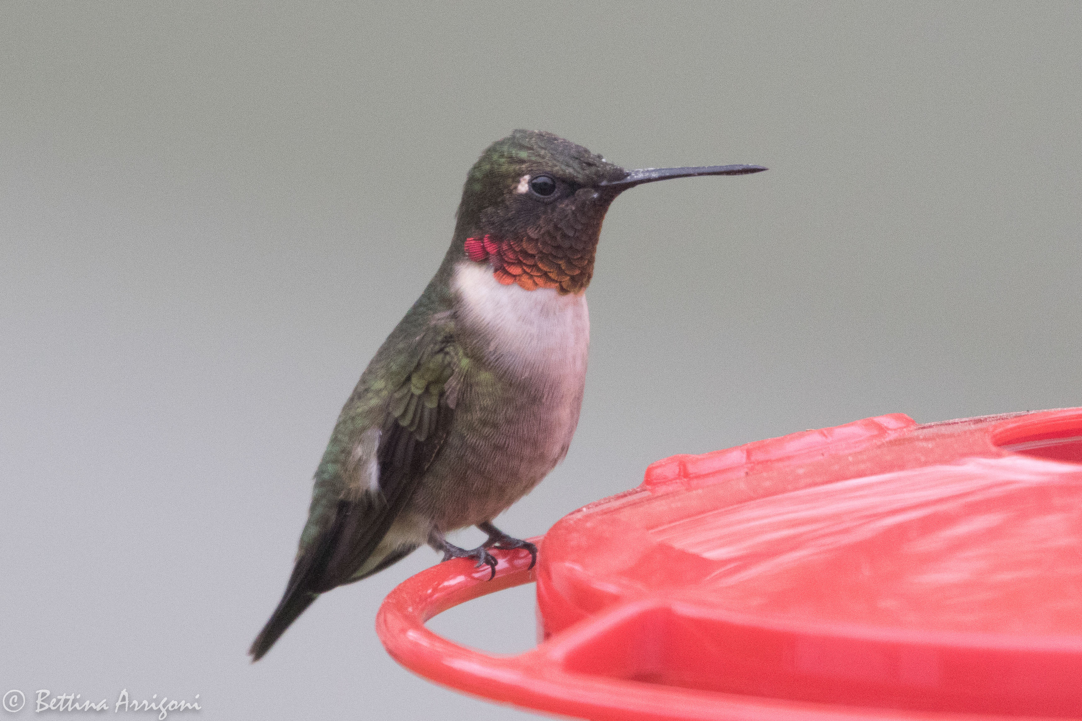 Ruby-throated Hummingbird (male) | Bentsen Palm RV Village | Mission | TX|2018-03-06|15-06-57.jpg